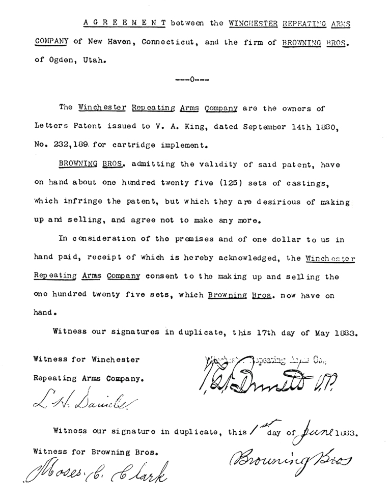 Browning Winchester Contract 1883